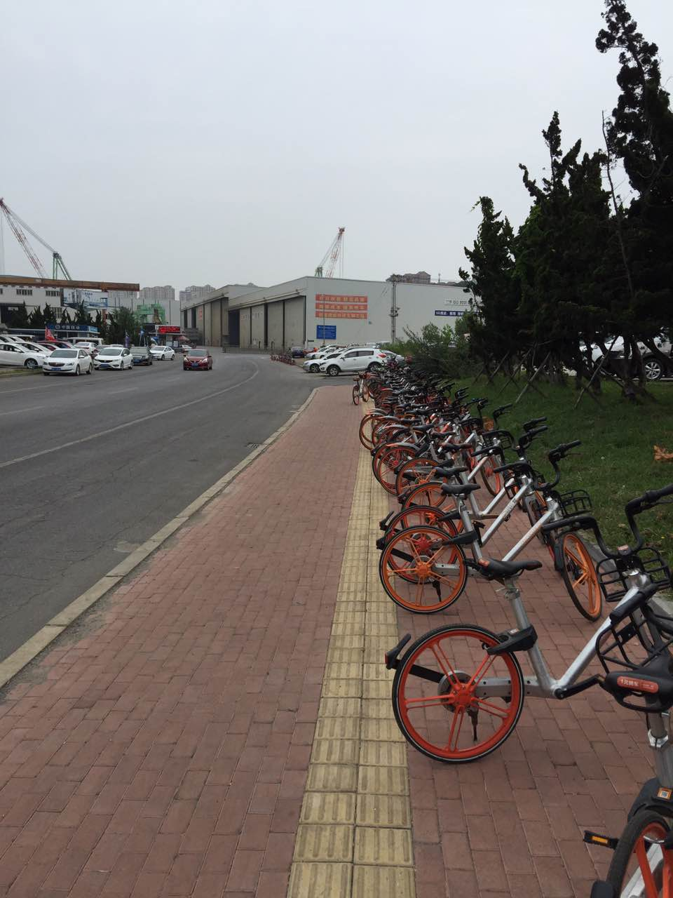 public bicycle in lvshun